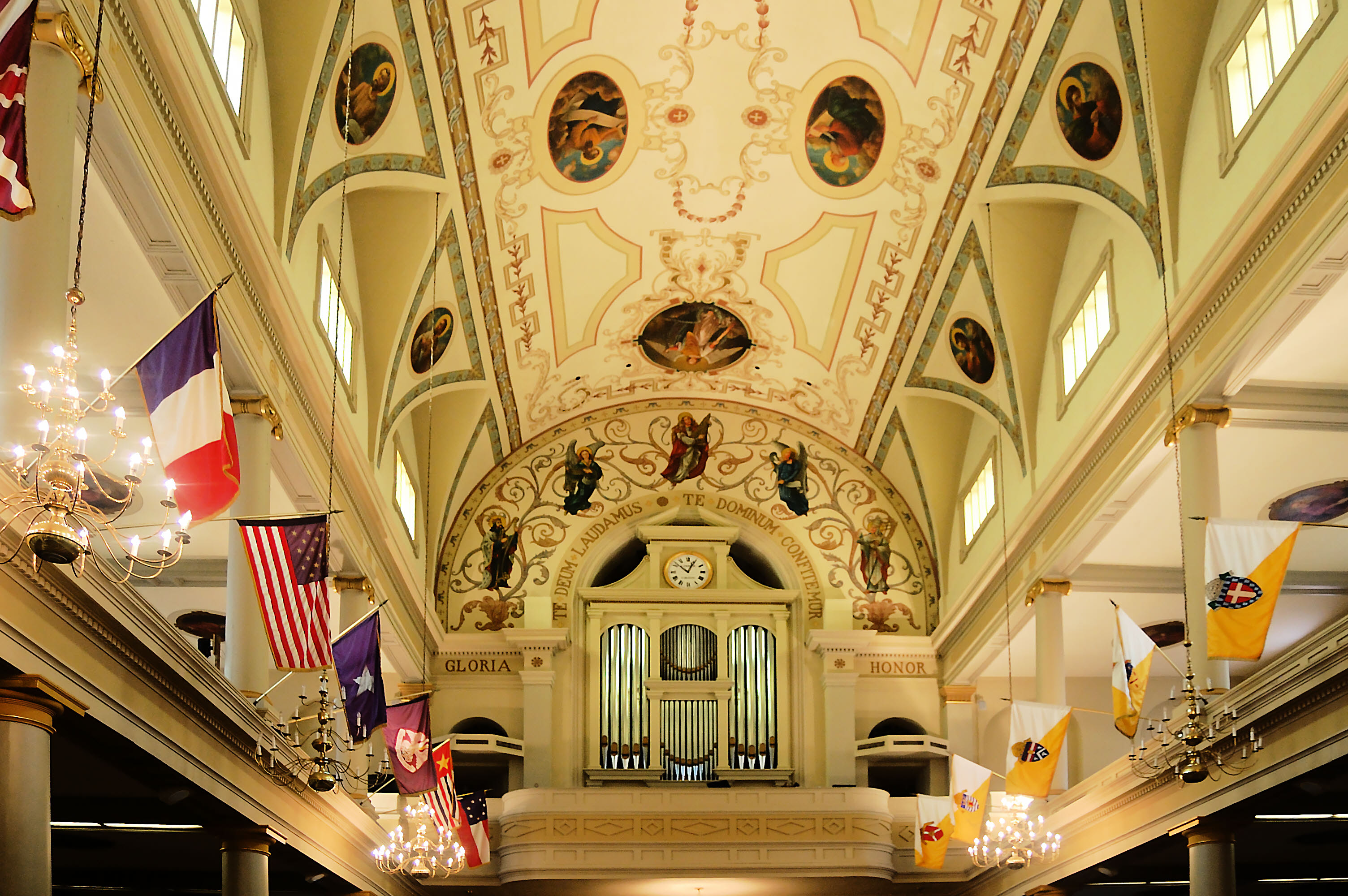 Saint Louis Cathedral in New Orleans, Louisiana, organ pipes